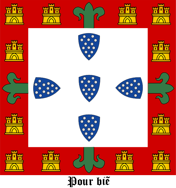 Banner of Arms of Portuguese King John I